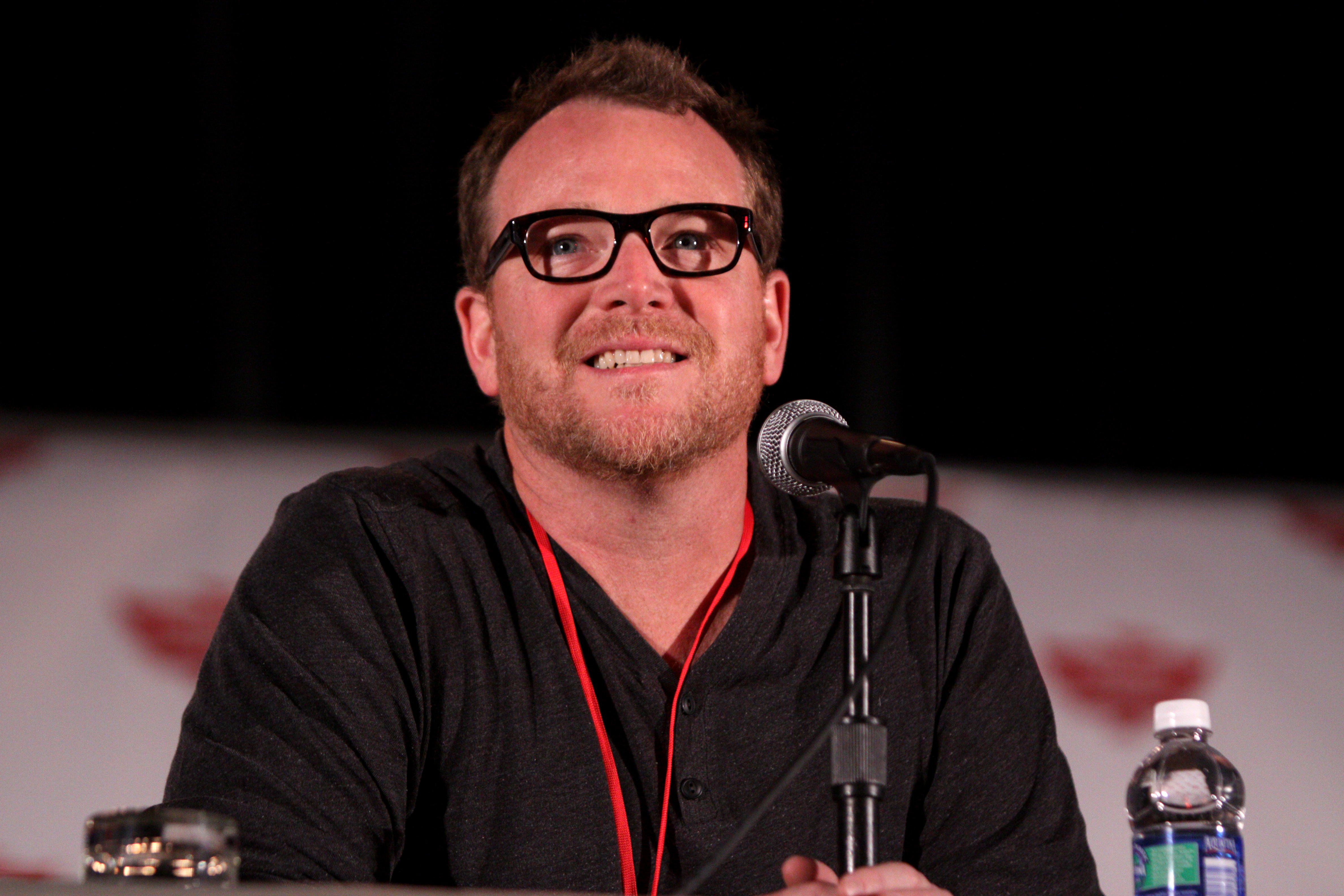 Robert Duncan McNeill, on the Chuck panel, at the Phoenix Comicon in Phoenix, Arizona.